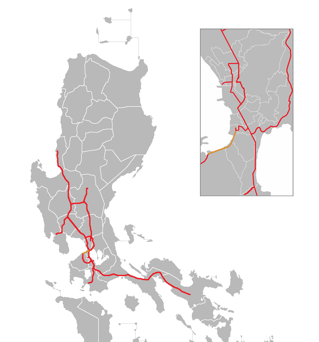 A map of CAVITEX